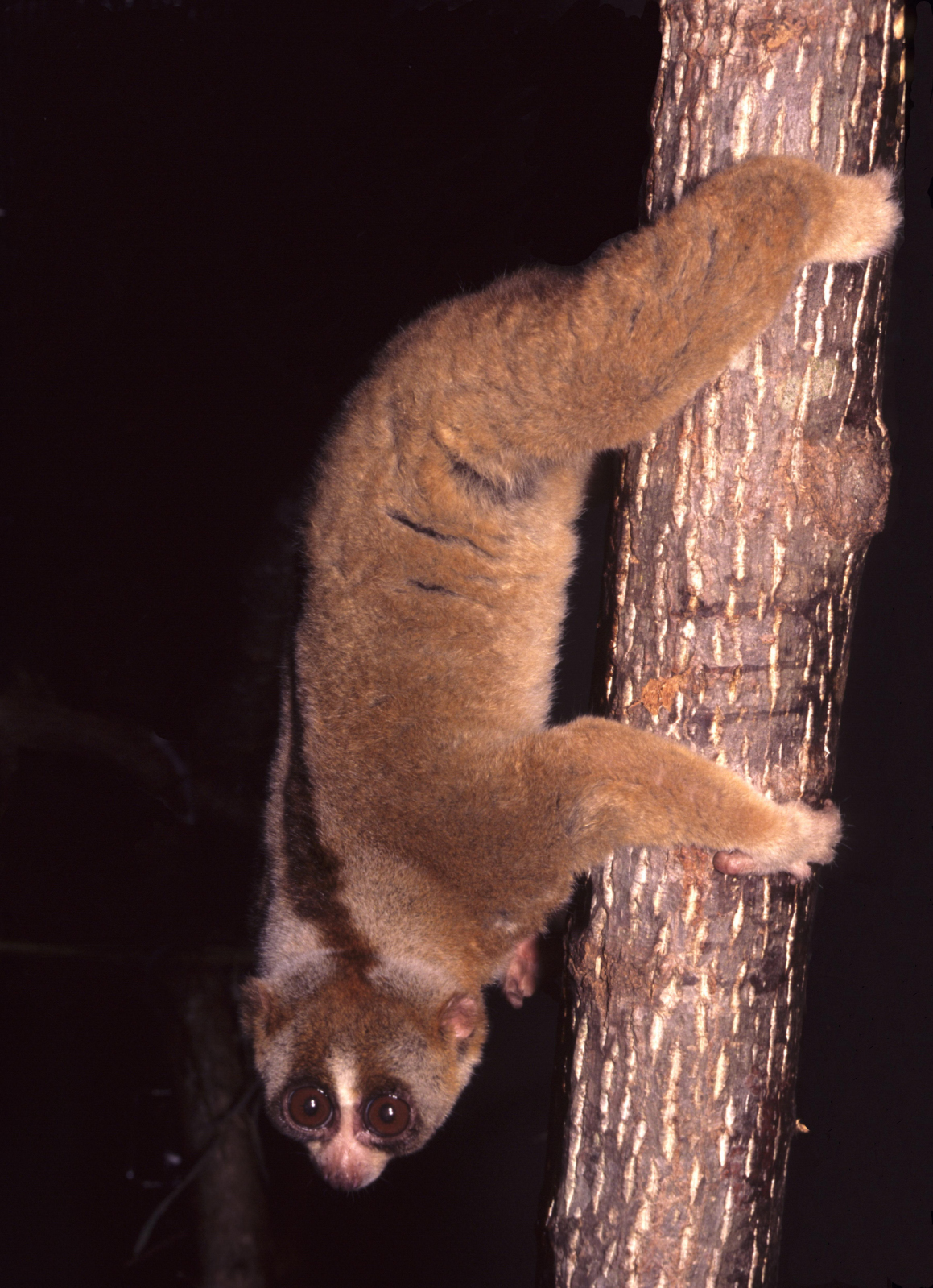 A Sumatran Sunda Slow Loris (Nycticebus coucang) clinging to a tree branch at the Duke Lemur Center in Durham, North Carolina.